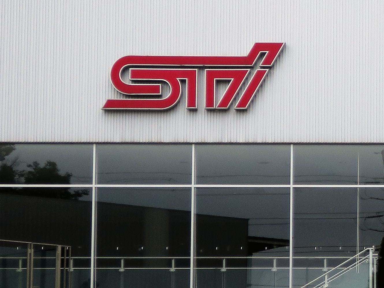 Subaru Tecnica International Mitaka Showroom (STI Gallery).